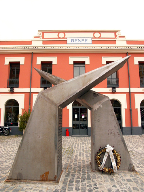 Aixopluc war memorial placed in front of Xàtiva's RENFE station, dedicated on February 18th, 2007 (just a few days earlier, hence the flowers)